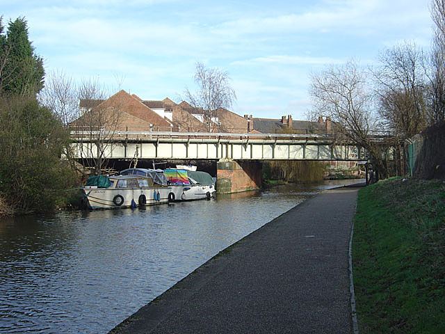 Leen Valley Railway bridge Part of the Midland Railway empire. The Leen Valley branch was the first line to be built up the Leen Valley to tap the coalfields between Nottingham and Mansfield. It was late joined by a branch of the Great Northern Railway and the Great Central. Here it crosses the Nottingham Canal on a plate girder bridge. At this point the line also carries traffic from Nottingham to Chesterfield and Sheffield via the Erewash Valley line.